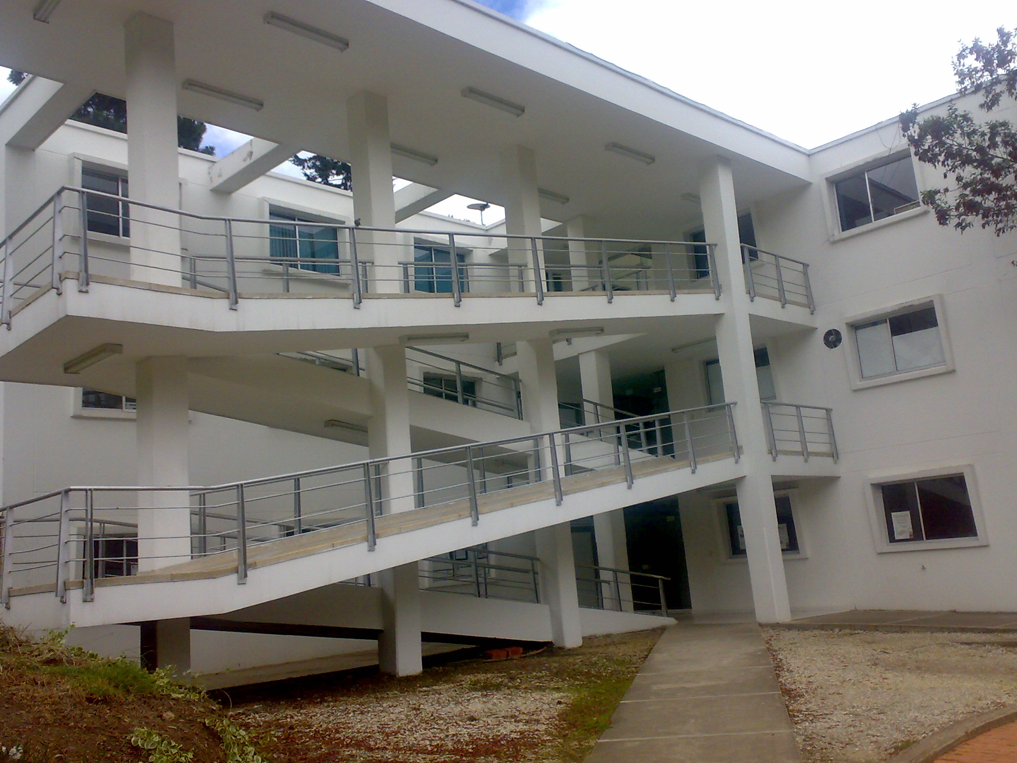 University of Pamplona - Simón Bolívar Tower -Facultad de Ciencias Basicas- Pamplona, Norte de Santander - COLOMBIA